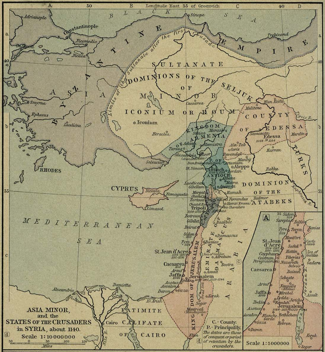 Asia Minor at the time of the First Mithridatical War.